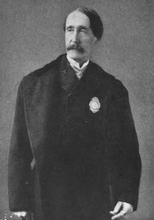 Henry Bergh, founder of the American Society for the Prevention of Cruelty to Animals.